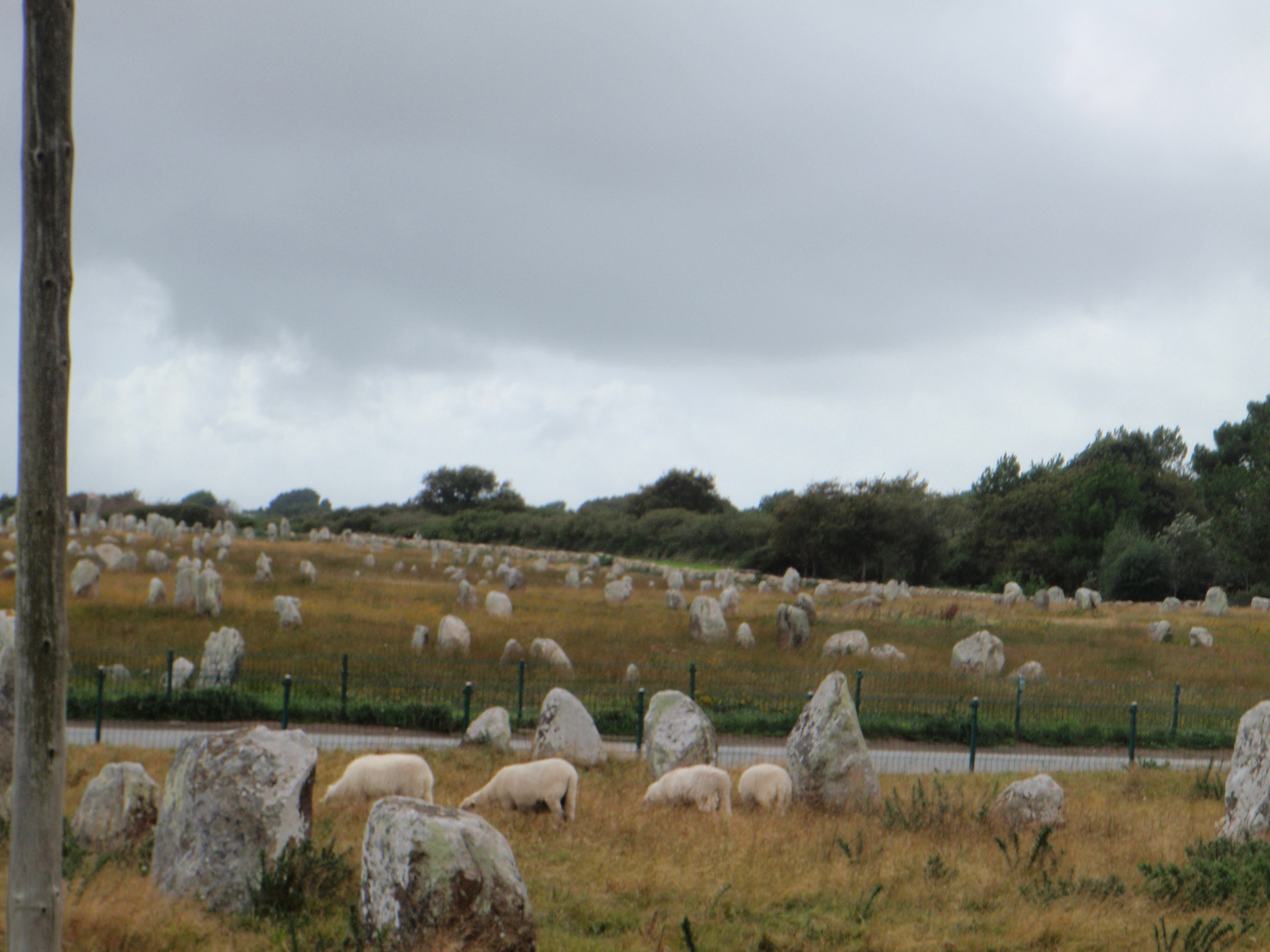 Sheep as open-air-museum maintenance workers near Carnacs alignements